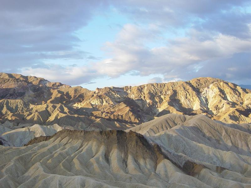 Zabriskie Point at sunrise in Death Valley